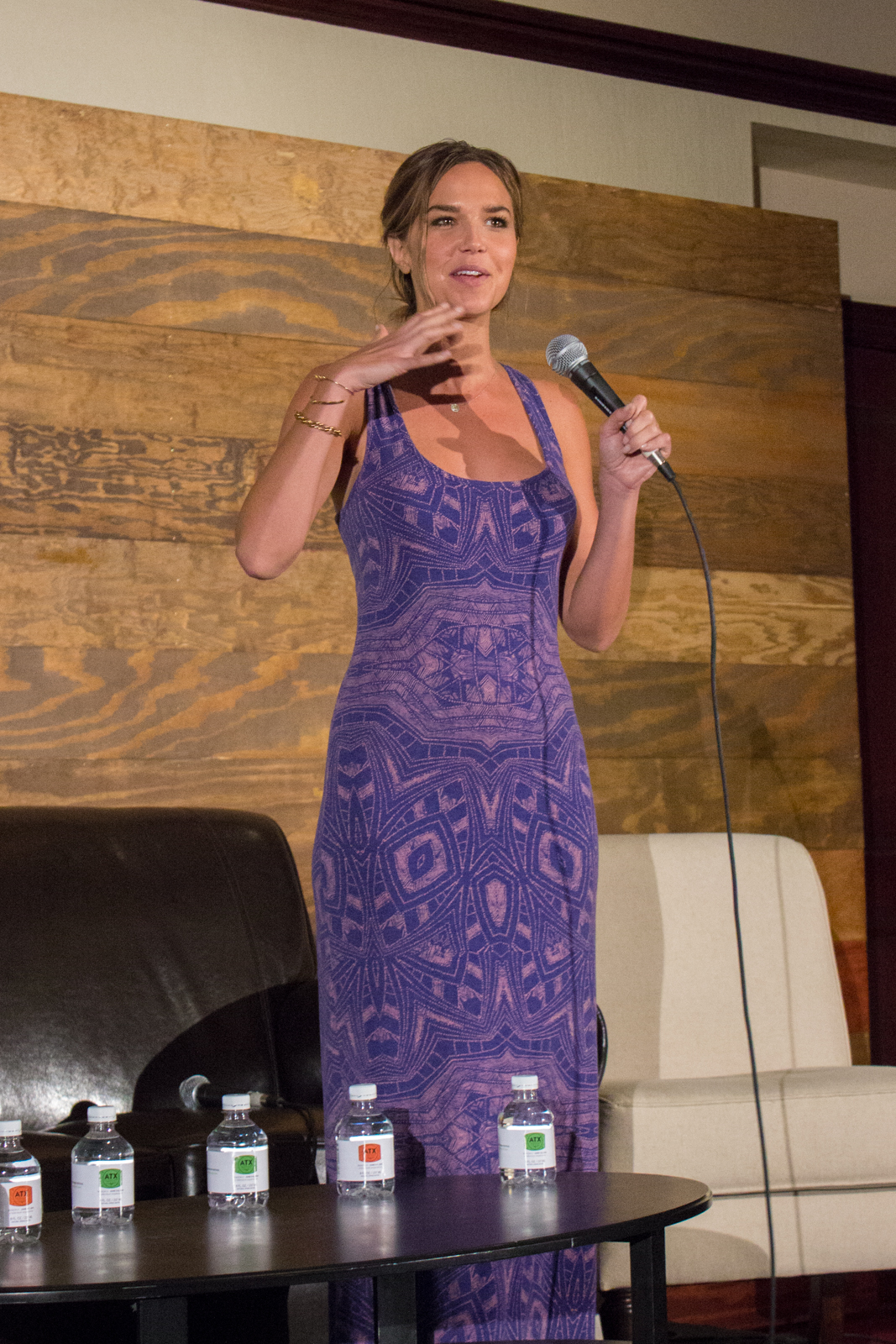 Actress Arielle Kebbel at the ATX TV Festival 2014 for the TV show "Sullivan and Son"